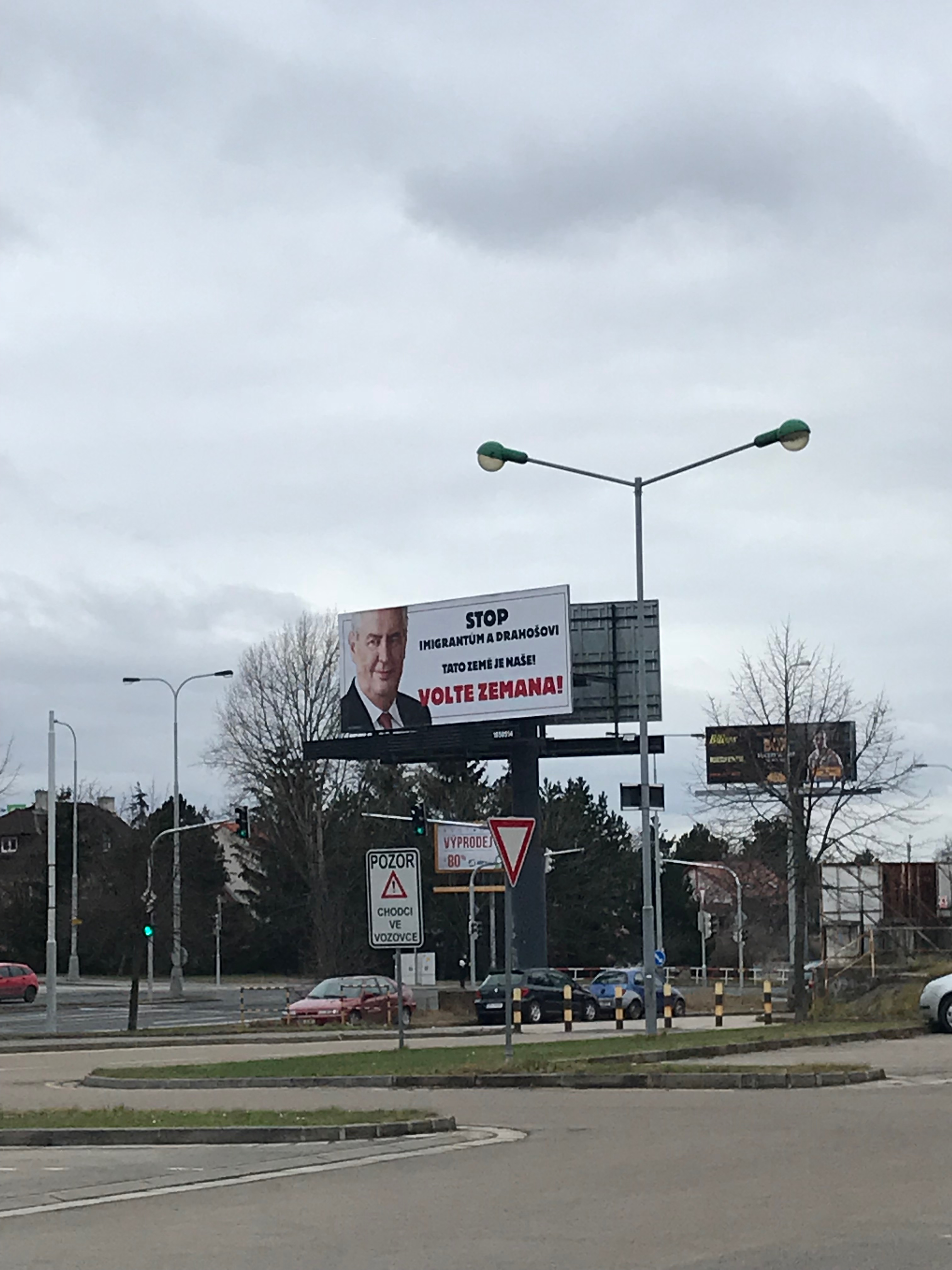 Billboard by „Friends of Miloš Zeman" in Prague before Czech presidental election, 2018. It was pulled up in the second round. It is anti Drahoš (other candidate) and migrants. It was criticized to be manipulative.